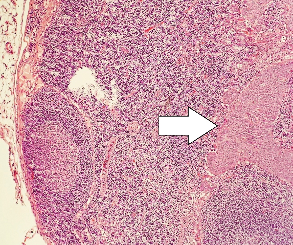 Mesenterial lymph node metastasis from a neuroendocrine tumor of the midgut.